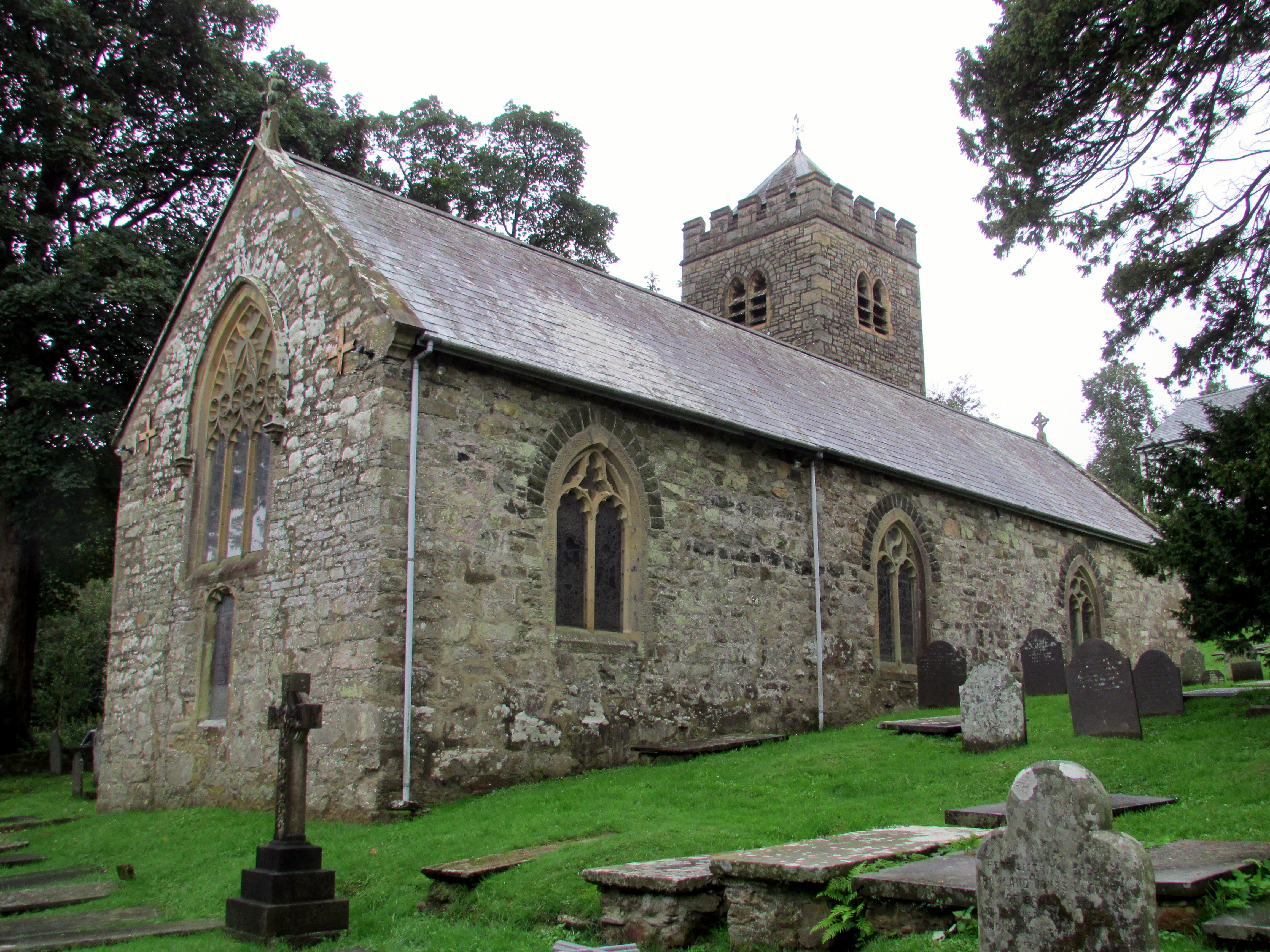 The church in Llanbedrog probably has C13 origins. The present single cell structure is medieval, extended or rebuilt at the E in the early C16. Repairs were carried out in 1827 (tablet in tower), and it was restored in 1865. The tower was added in 1895 by Sarah E M Williams-Jones Parry of Madryn in memory of her parents